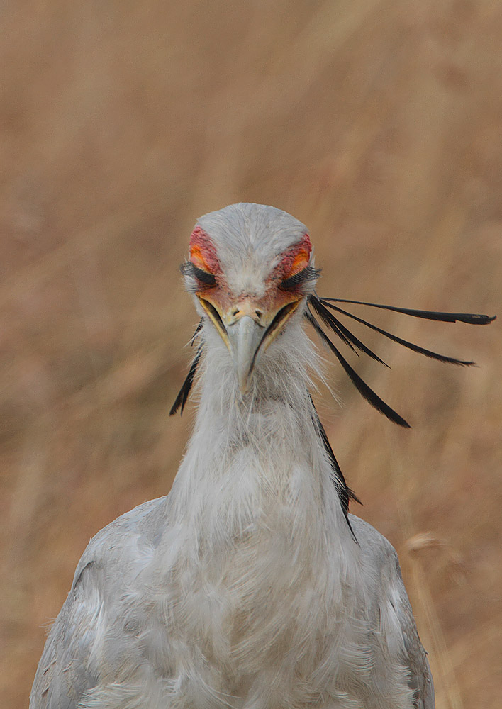 A Secretarybird in Masai Mara, Kenya.